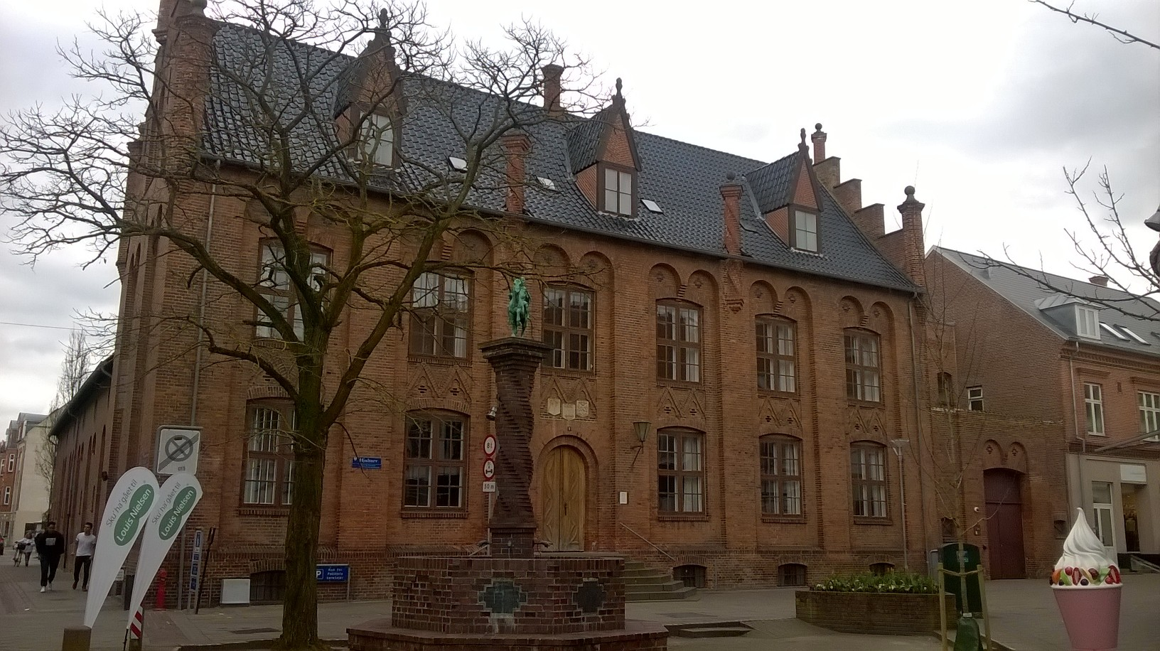 Prison in Næstved. Located at Hjultorvet (Wheel Square).